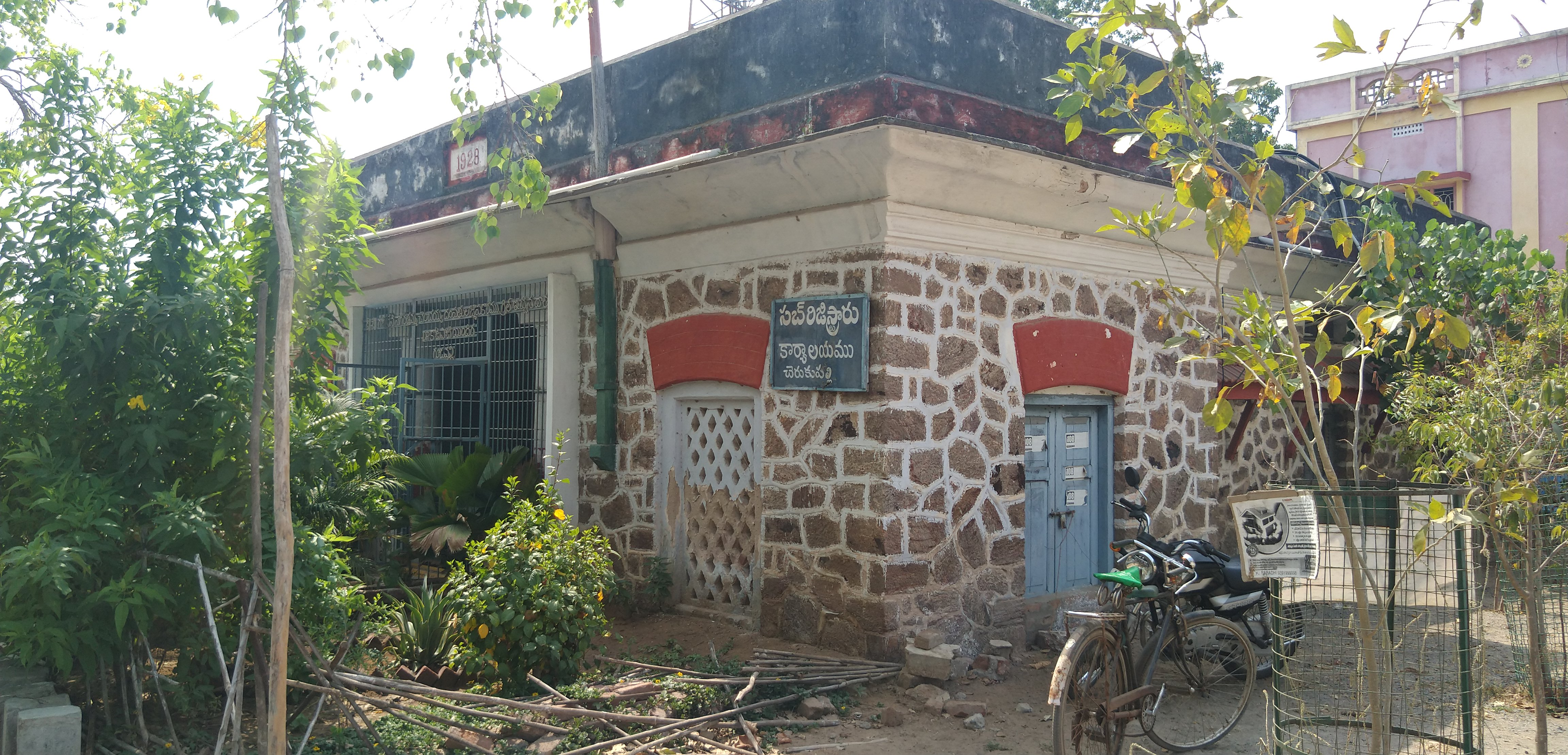 This 1928 building houses the Sub registrar office